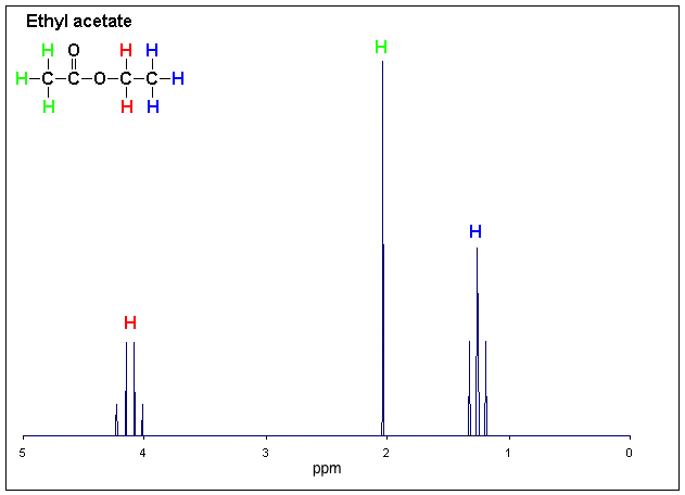 1H NMR spectrum calculated from the numebers presentred in on 20091115. The graph is generated by a macro written in visual basic under excel